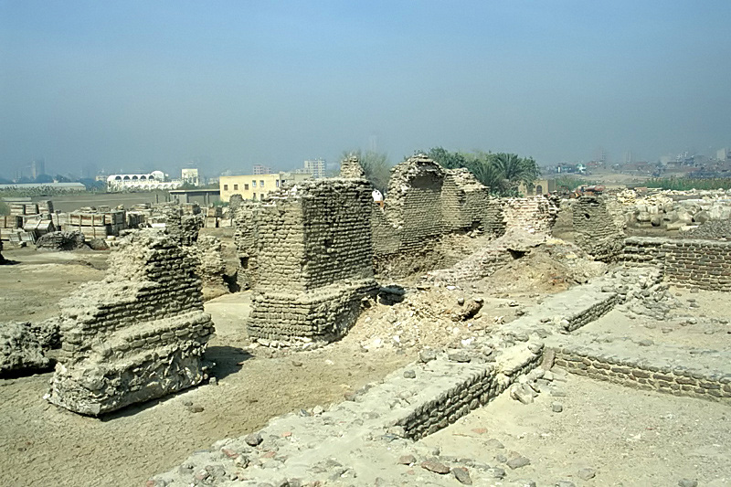 Ruins of houses, Fustat Ruins, Old Cairo, Egypt